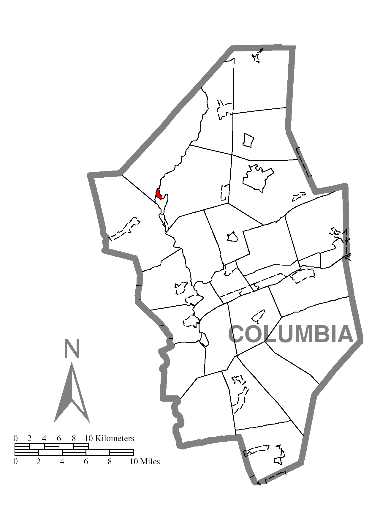 A map of Columbia County showing Iola, Pennsylvania (alternate) highlighted on the map.